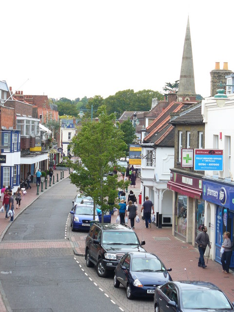 High Street, Egham Curving High Street in the historic town of Egham. The main through road now by-passes the High Street, leaving it a quieter place for shoppers and visitors.